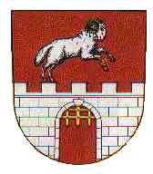 Coat of arms of Bubeneč